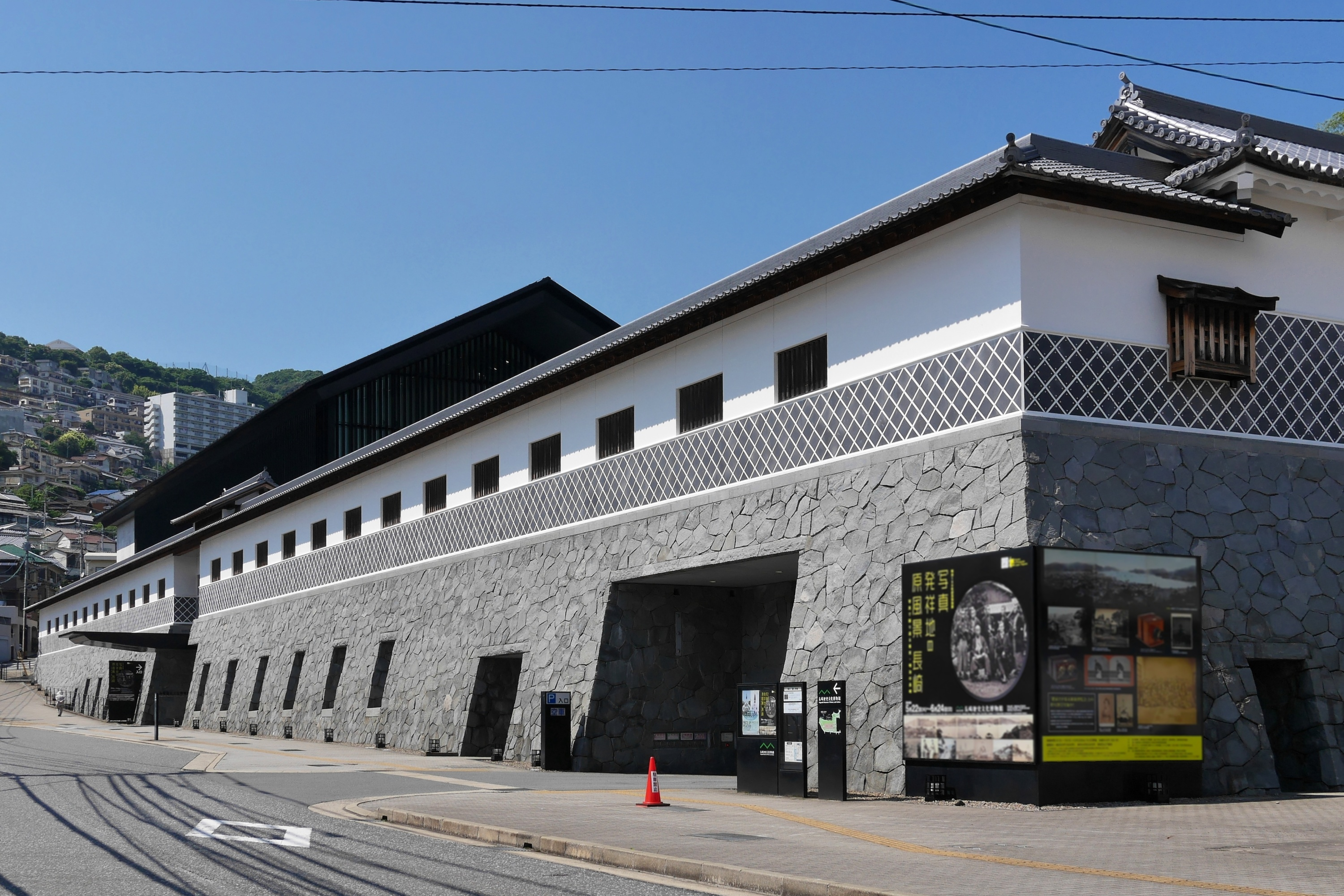 Nagasaki Museum of History and Culture.